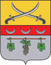 Coat of Arms Chuhuiv (Kharkiv Oblast Ukraine.)